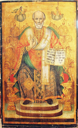 Saint Nicholas Icon in Kitros Metropoly, 1864, Stergios Demitriou